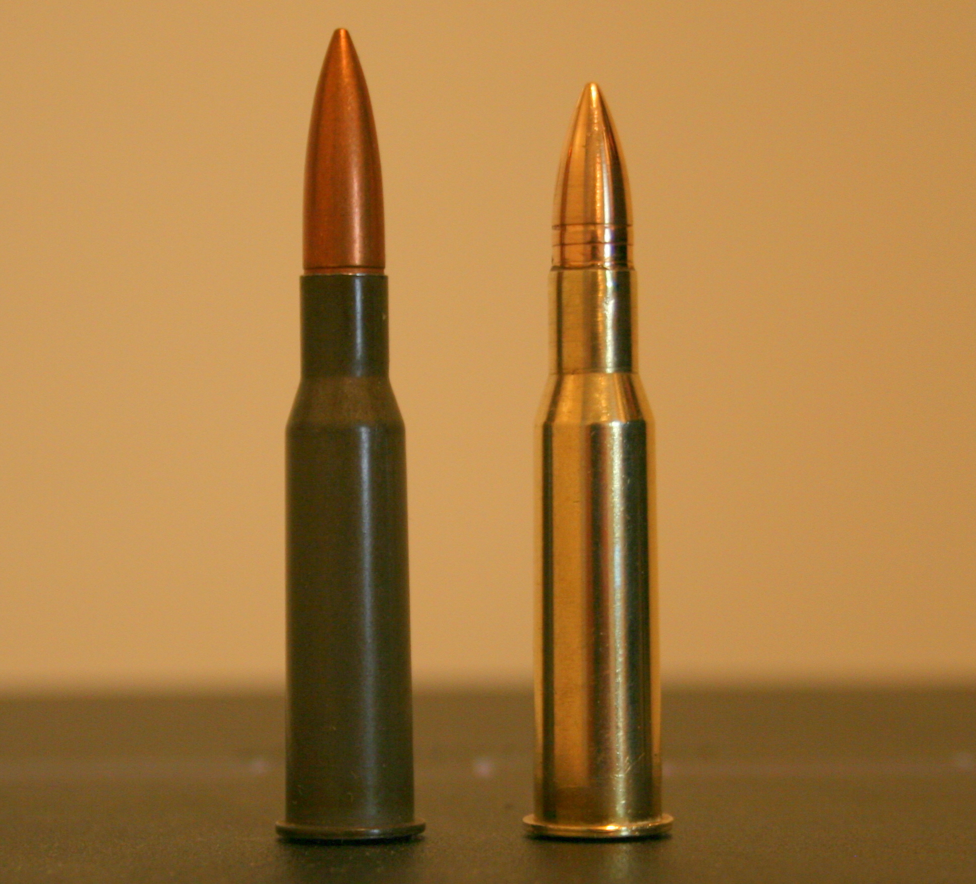 7.62x53mmR cartridges.